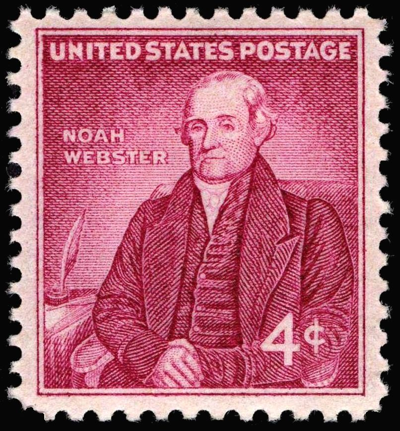 Image of Noah Webster on US Postage stamp, issue of 1958